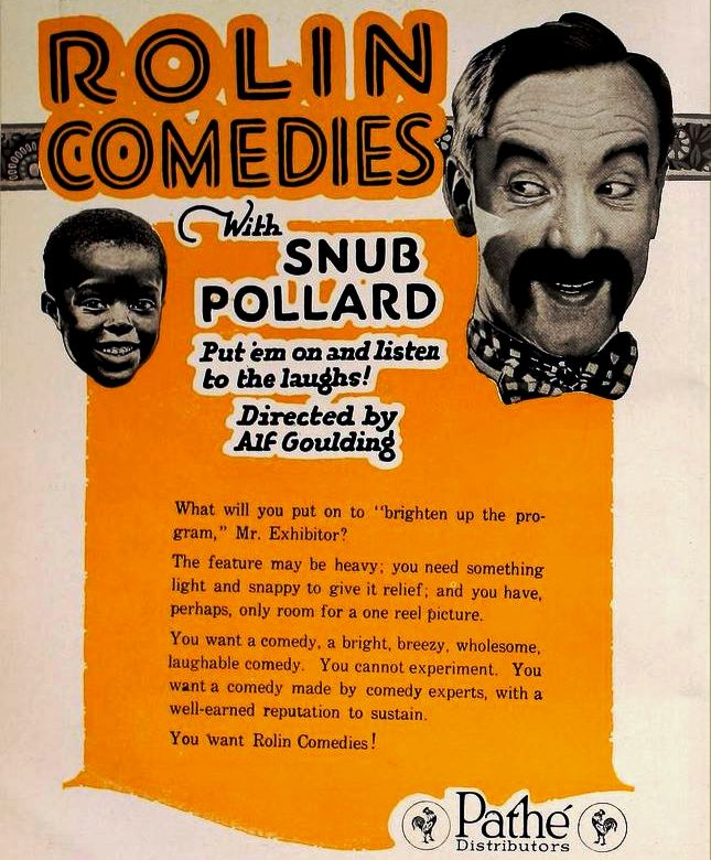 Ad for Rolin comedy shorts with American comic actor Snub Pollard. The director, Alf Goulding was a fellow vaudevillian from the Australian "Pollard's Lilliputian Opera Company." Page 3694 of the April 24, 1920 Motion Picture News